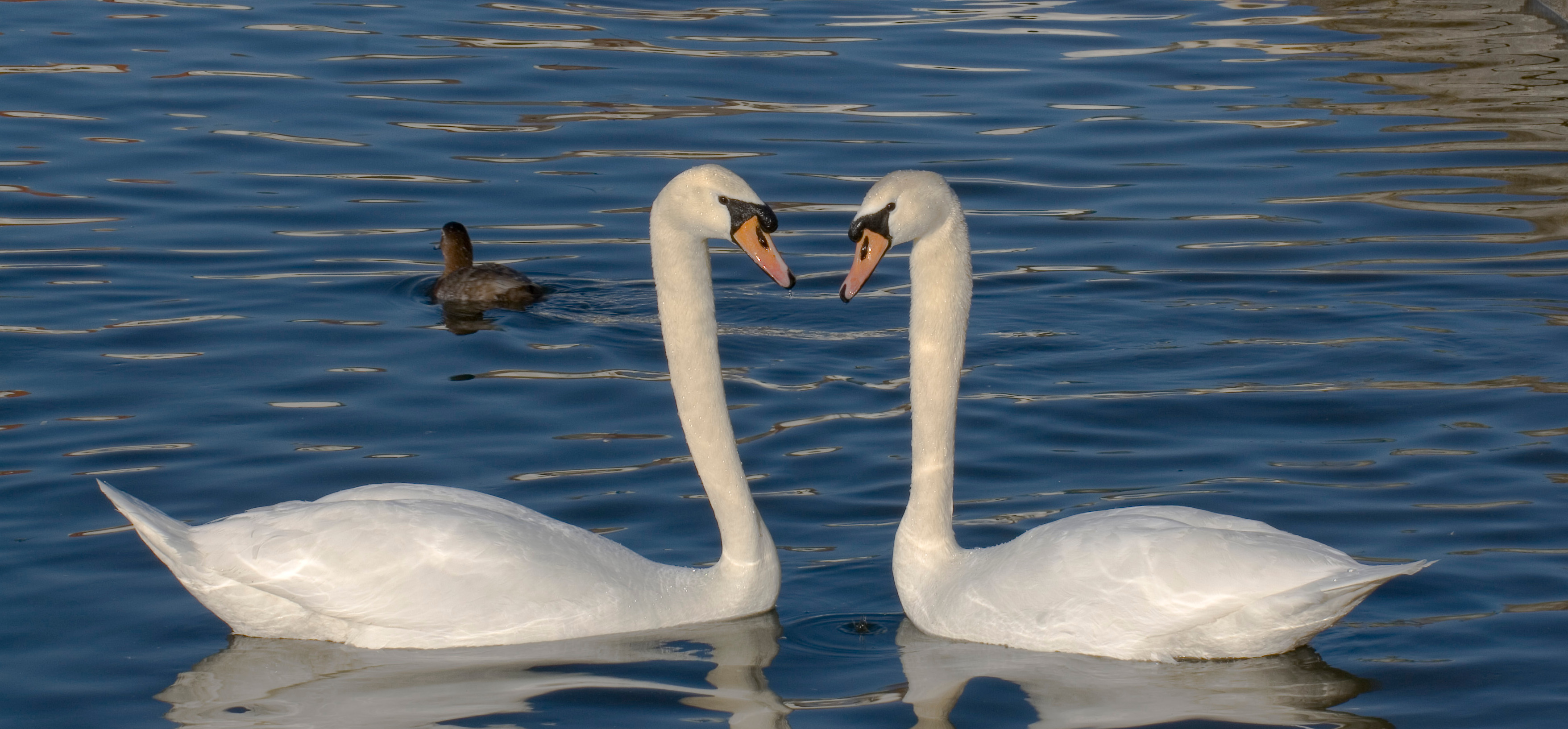 Swan (Cygnus olor) at the Nymphenburg Palace, Munich, Germany